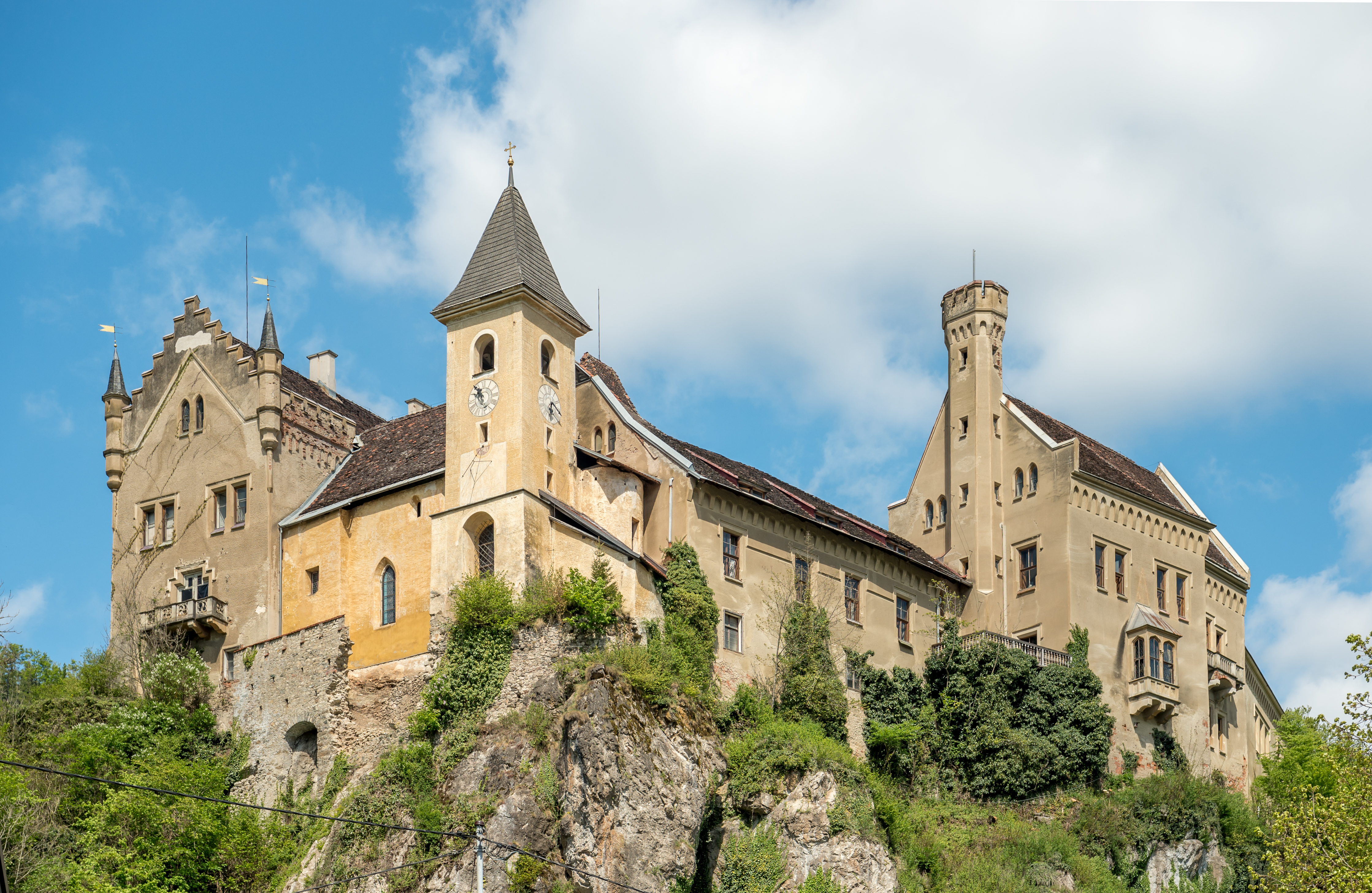 Castle Eberstein on Schlossberg #1, market town Eberstein (Kärnten), district Sankt Veit, Carinthia, Austria, EU